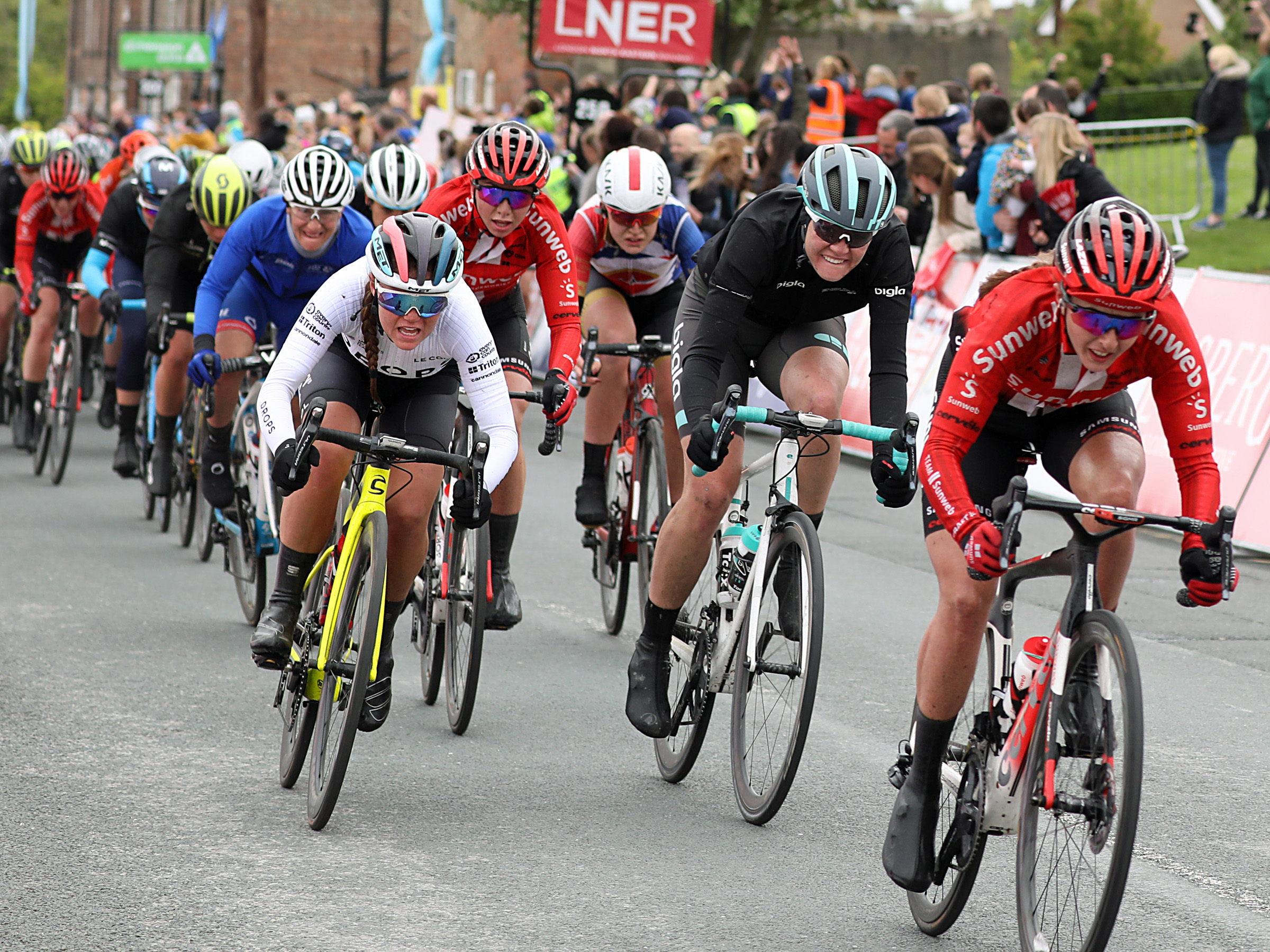 The sprint finish on the run up to the finish line at Bedale in North Yorkshire, 3 May 2019